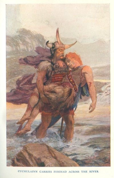 Cuchulainn Carries Ferdiad Across the River by E. Wallcousins. Squire, Charles (n.d.), “Chapter 12: The Irish Iliad”, in Celtic Myth And Legend Poetry And Romance, London: Gresham Publishing Company, page 172. Originally published under the title The Mythology of the British Islands, London: Blackie and Son, 1905.